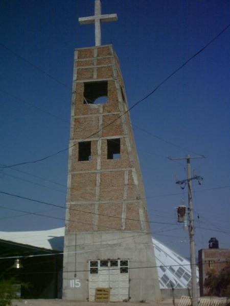 Sanctuary of Our Lady of Mount Caramel